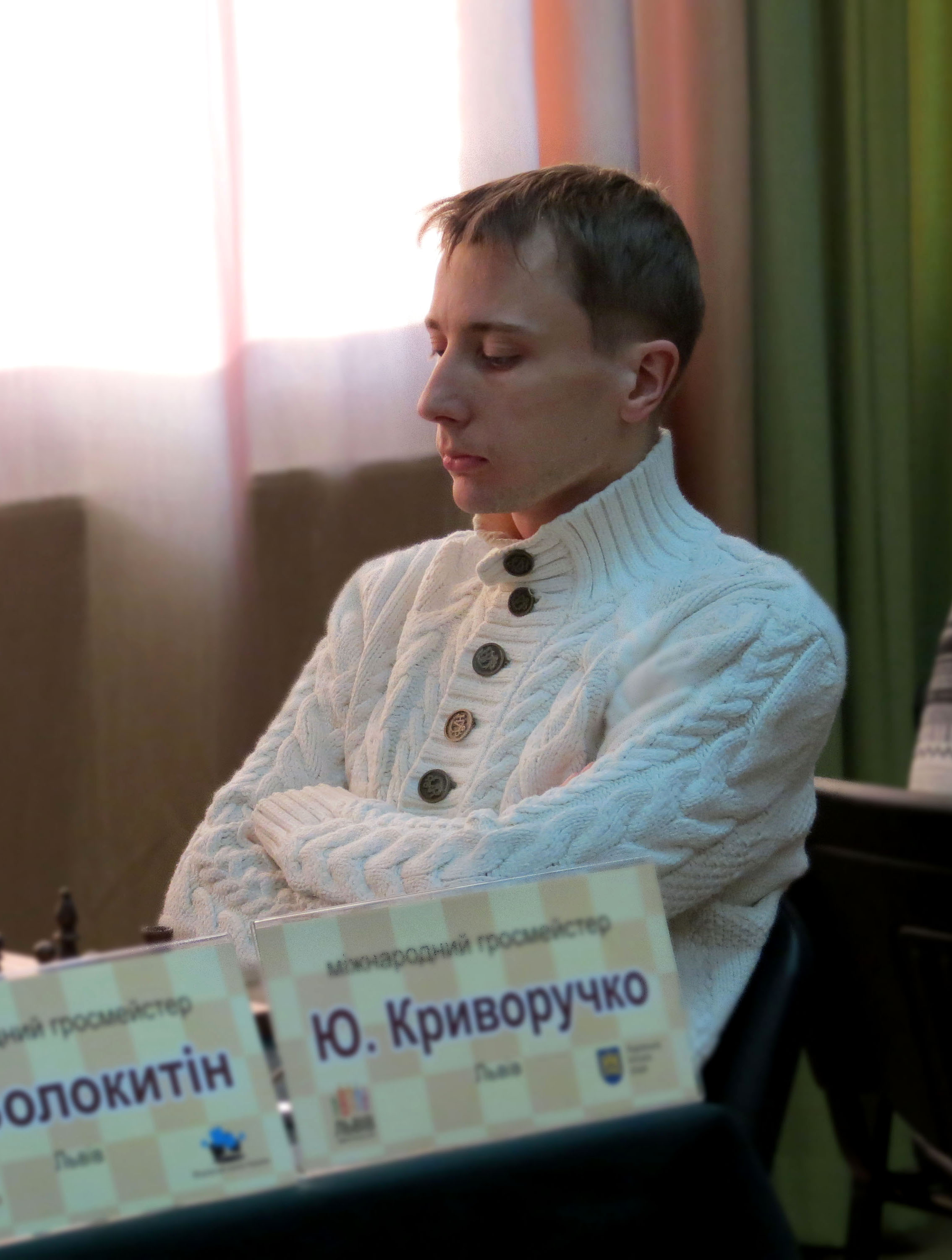 Yuriy Kryvoruchko Ukraine championship (december 2015)